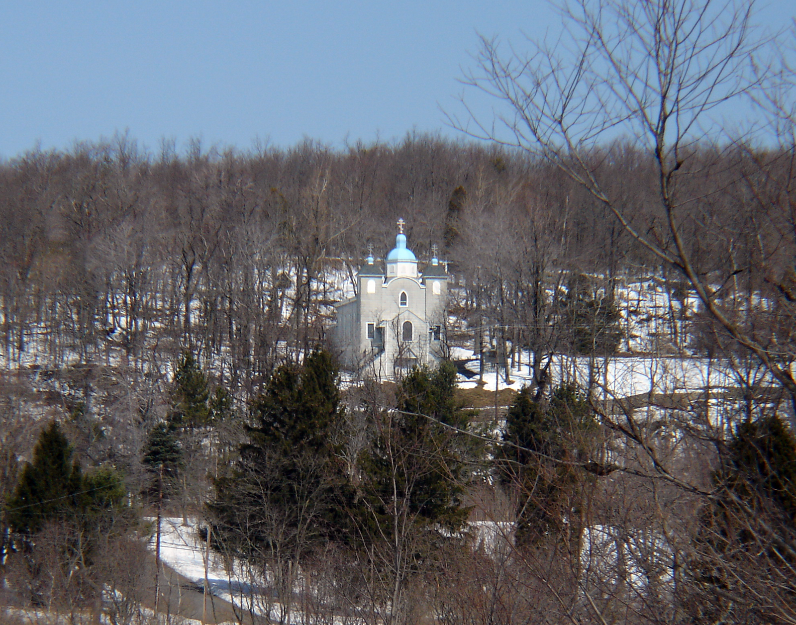 Assumption of the Blessed Virgin Mary Ukrainian Greek-Catholic Church on North Paxton Street, Centralia, PA. The church is on a hillside overlooking Centralia, a town nearly abandoned due to an underground coal seam fire.